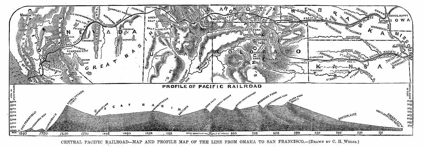 Composited digital restoration of the 1867 engraving of the Map and Profile of the line of the Pacific Railroad from Omaha to San Francisco Scanning, digital reconstruction, compositing, and restoration by (uploader)